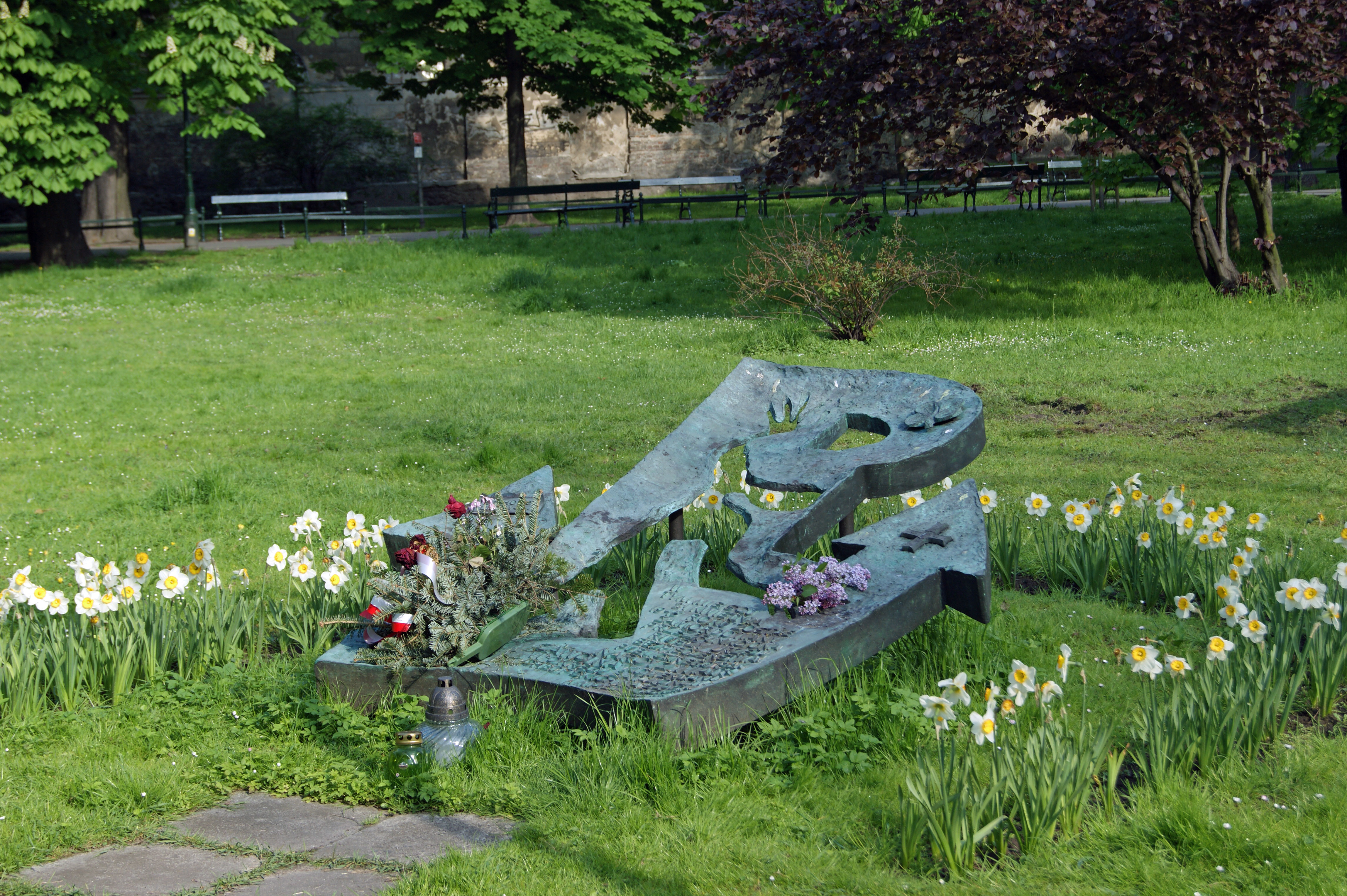 Narcyz Wiatr memorial (1992 by sculptor Bronisław Chromy), Planty Garden, Old Town, Krakow, Poland